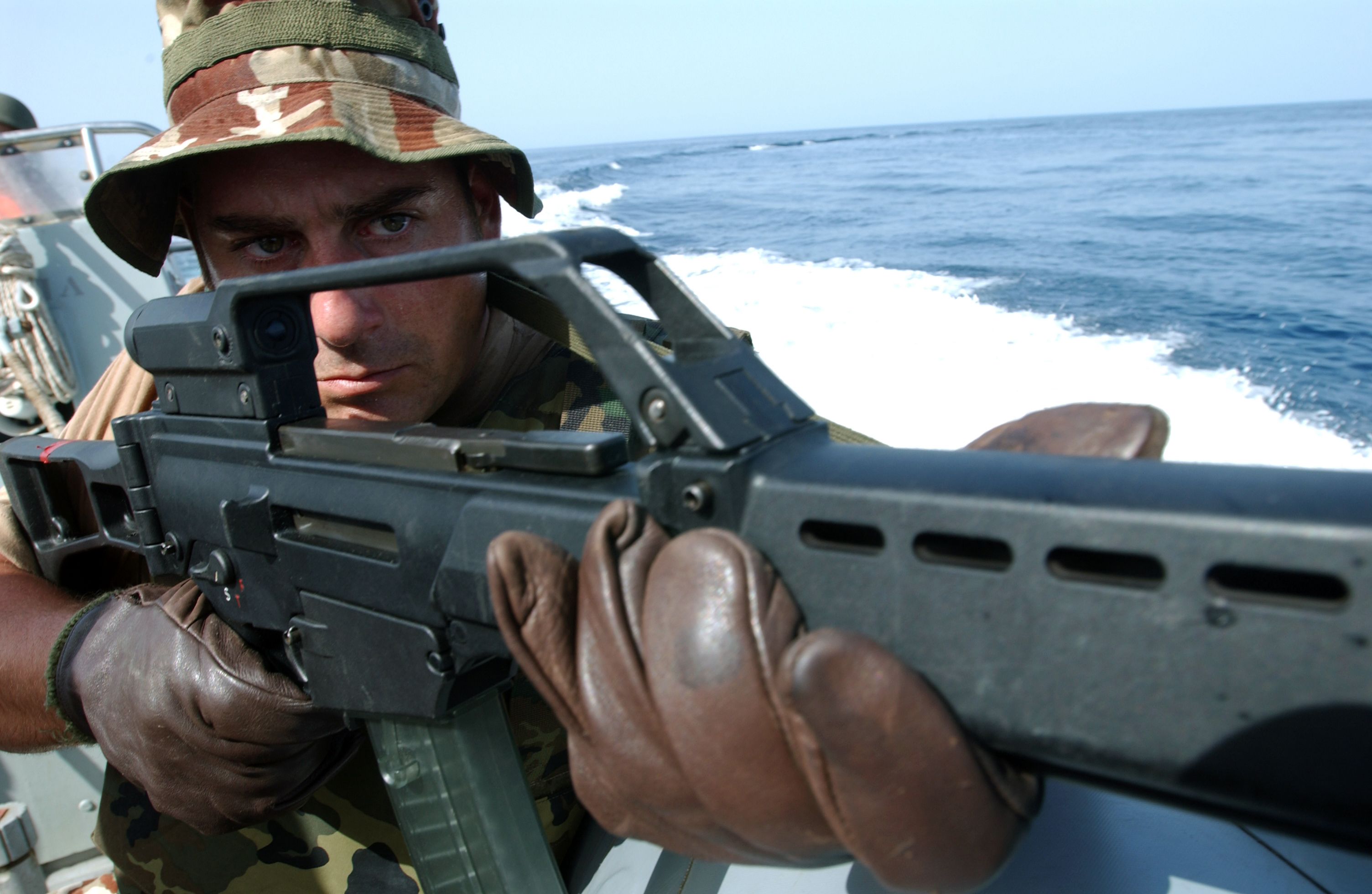 A Boarding Team Member assigned to the Spanish Frigate SNS Numancia (F 83) provides security for the team as they approach a fishing dhow to conduct a search of the vessel. The multinational Combined Task Force One Five Zero (CTF-150) was established to monitor, inspect, board, and stop suspect shipping to pursue the war on terrorism and includes operations currently taking place in the North Arabia Sea to support Operation Iraqi Freedom. Countries contributing to CTF-150 currently include Australia, Canada, France, Germany, Italy, Pakistan, New Zealand, Spain, United Kingdom and the United States.